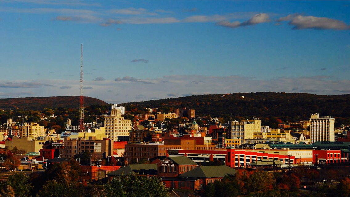 Scranton, Pennsylvania's skyline. Scranton, Pennsylvania is the largest city in the northeastern part of Pennsylvania.